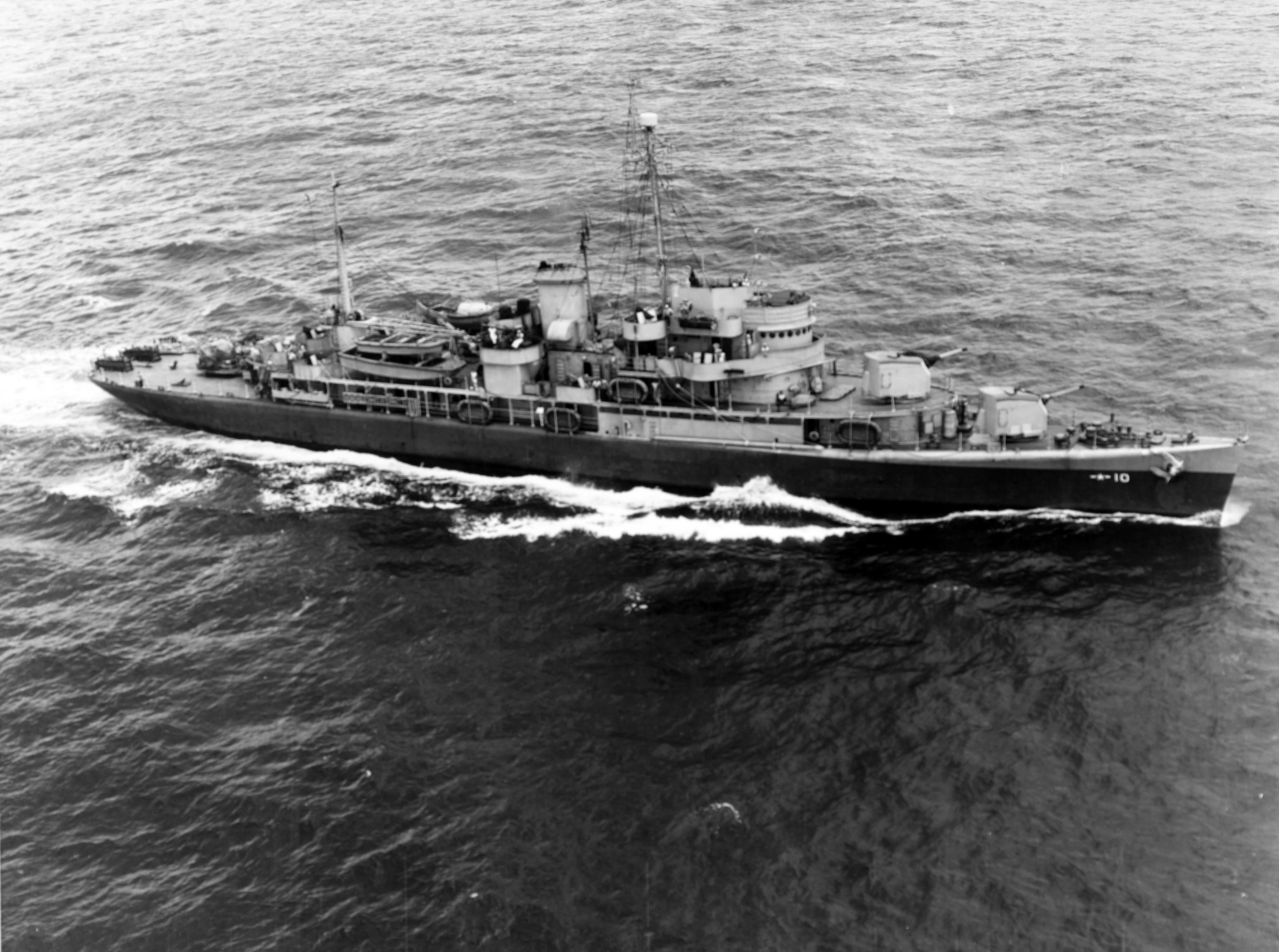 The U.S. Navy small seaplane tender USS Barnegat (AVP-10) underway off the coast of Brazil on 4 April 1944. The ship is painted in Camouflage Measure 22. Note the star and bar aircraft insignia on the bow aft of the hull number. The originally fitted large aircraft crane aft has been replaced by a smaller one. A SL-radar was fitted to her masttop, a SC-2 radar was fitted on a small mast in front of the stack. The photo was taken from an aircraft of Fleet Air Wing 16.